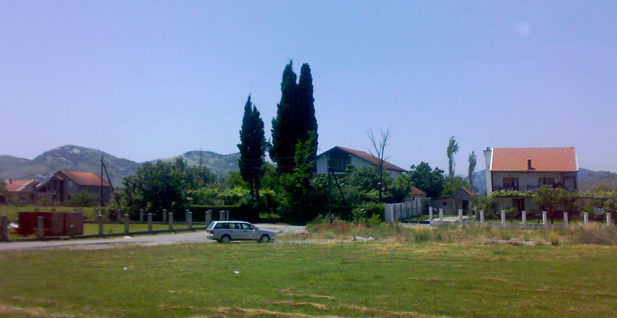 Image from southern Montenegro. Area close to Podgorica airport.